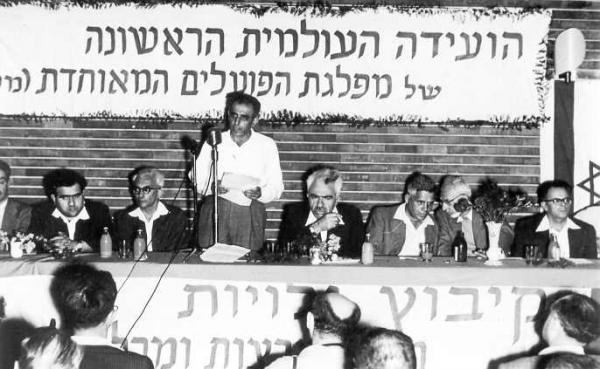 The first conference of Mapam ("Mifleget Poalim Meuhedet" - United Workers' Party, a left-wing Israeli political party, now incorporated in Meretz). On the stage, from right to left: Zvi Luria, Yaakov (Kuba) Riftin, Yaakov Hazan, Meir Yaari, Maitek Zilbertal, Mordechai Bentov and Yisrael (Yolek) Barzilai.